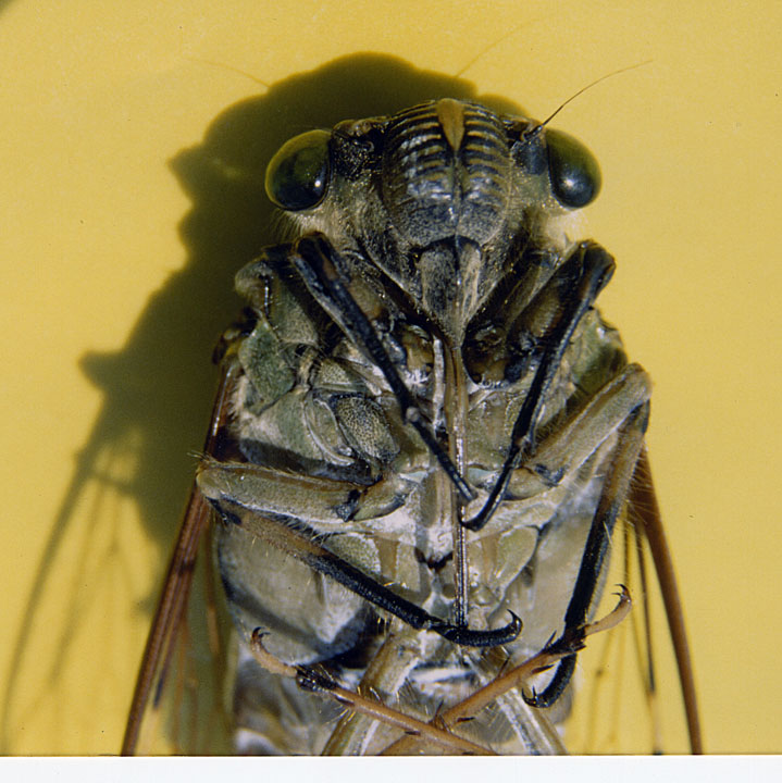 A ventral view of a giant Sumatran cicada.